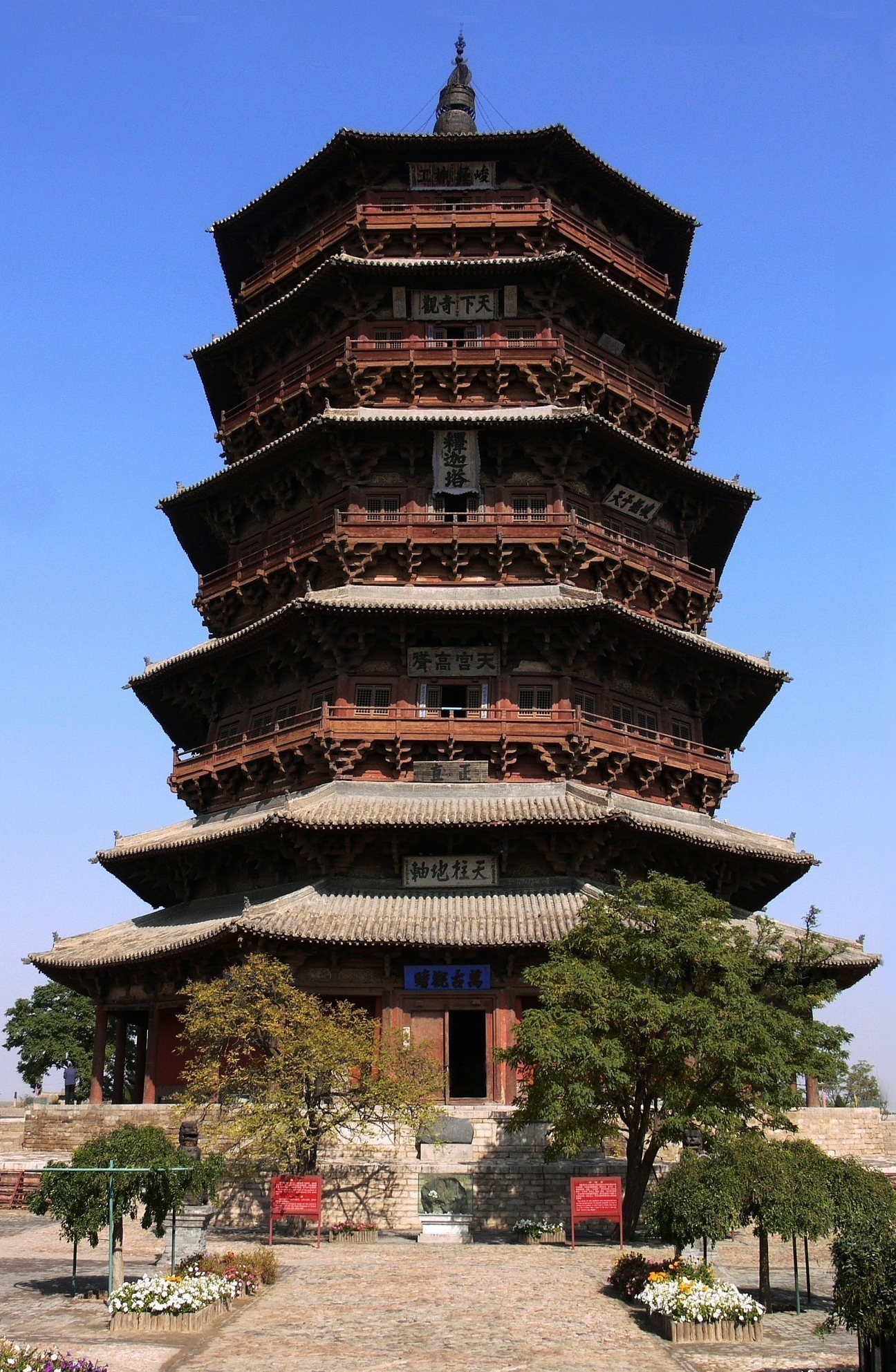 The Fogong Temple Wooden Pagoda of Ying county, Shanxi province, China (山西应县佛宫寺释迦木塔); this fully-wooden pagoda was built in 1056 AD during the Khitan-led Liao Dynasty of China.